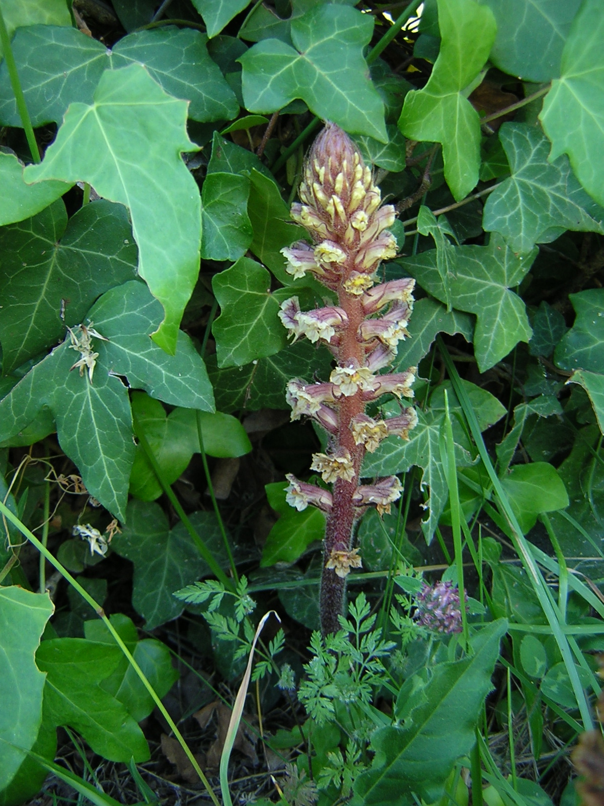 Orobanche hederae Source : [1]